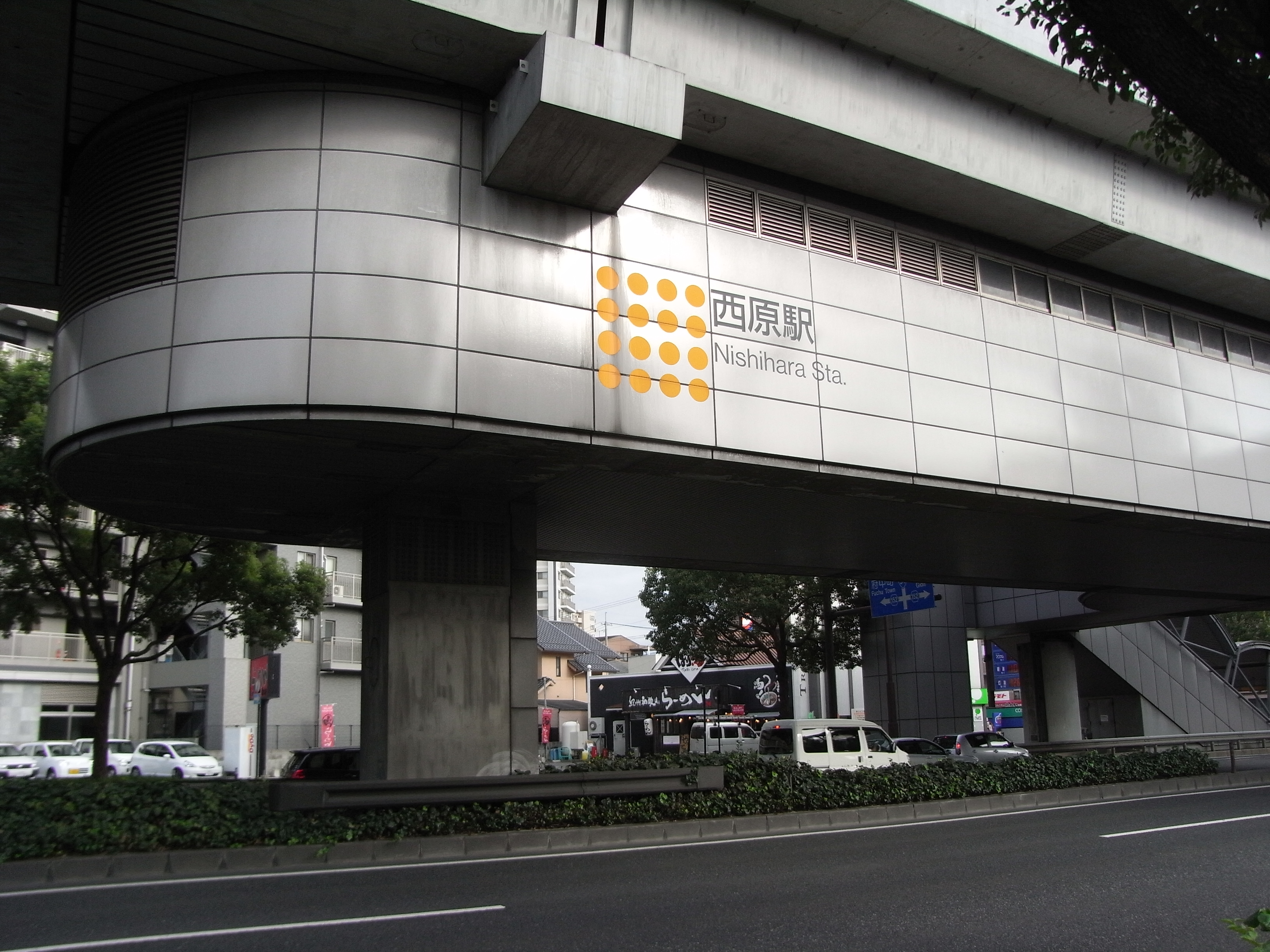 2009年9月21日、本人撮影 西原駅 (広島県) Description 西原駅 (広島県) GFDL,CC-BY-SA 3.0 Unported category:広島市の画像 category:鉄道駅画像 Category:広島高速交通の画像 西原駅 (広島県)